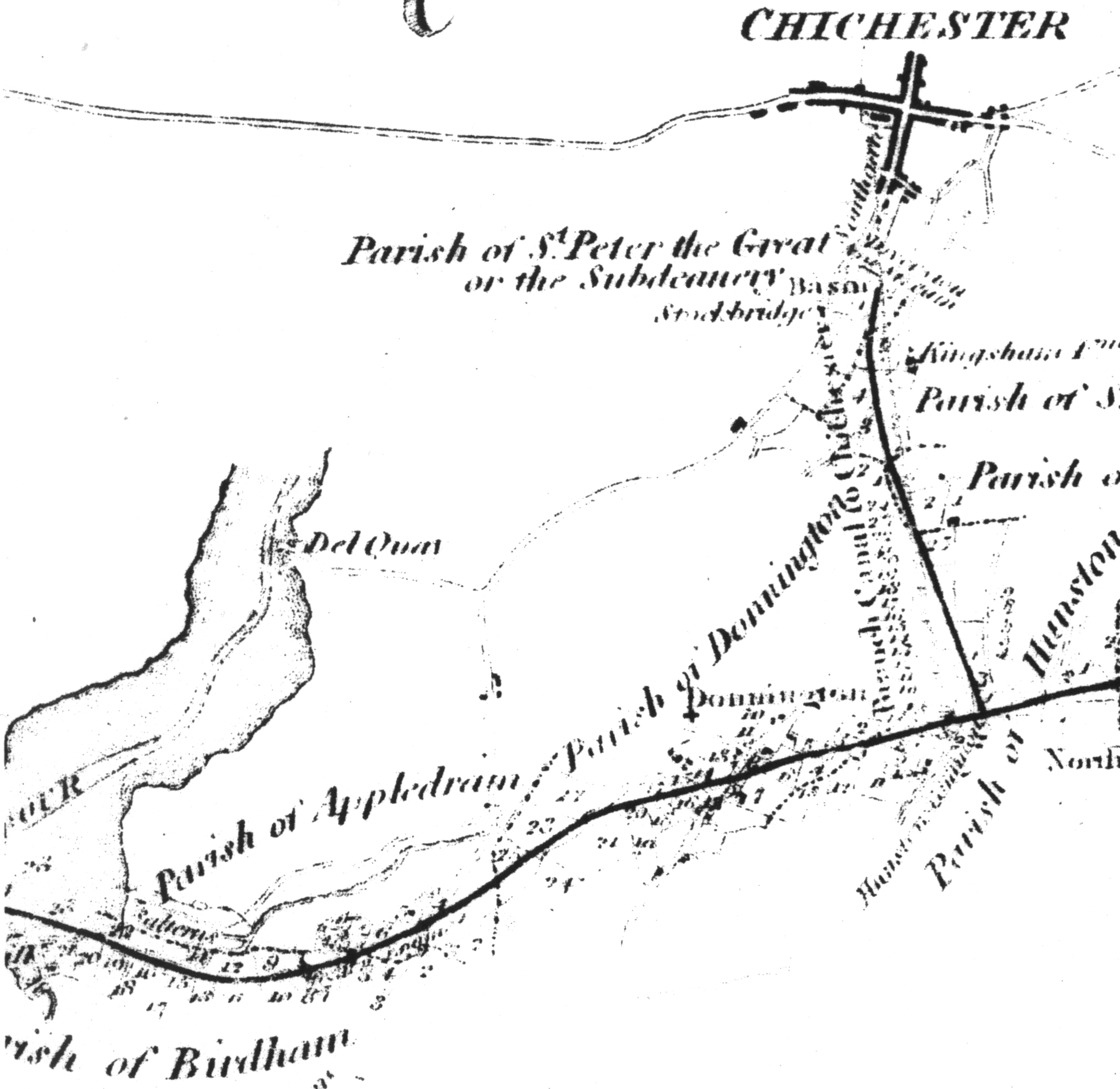 Map of the rout of the chichester canal from the original 1815 plan (when the canal was then part of the portsmouth and arundel)